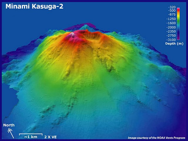 Minami Kasuga (South Kasuga) submarine volcano is seen in this bathymetric view, looking from the SW with two times vertical exaggeration. Bathymetic data are overlaid on SeaBat data courtesy of Ko-ichi Nakamura, National Institute of Advanced Science and Technology, Japan. Minami Kasuga (also referred to as Kasuga 2) rises from about 3000 m depth to within 170 m of the sea surface. Two subsidiary cones are located low on the eastern flank. Active hydrothermal fields are located at the summit of Minami Kasuga, at the base of summit ridges, and on the lower flanks.